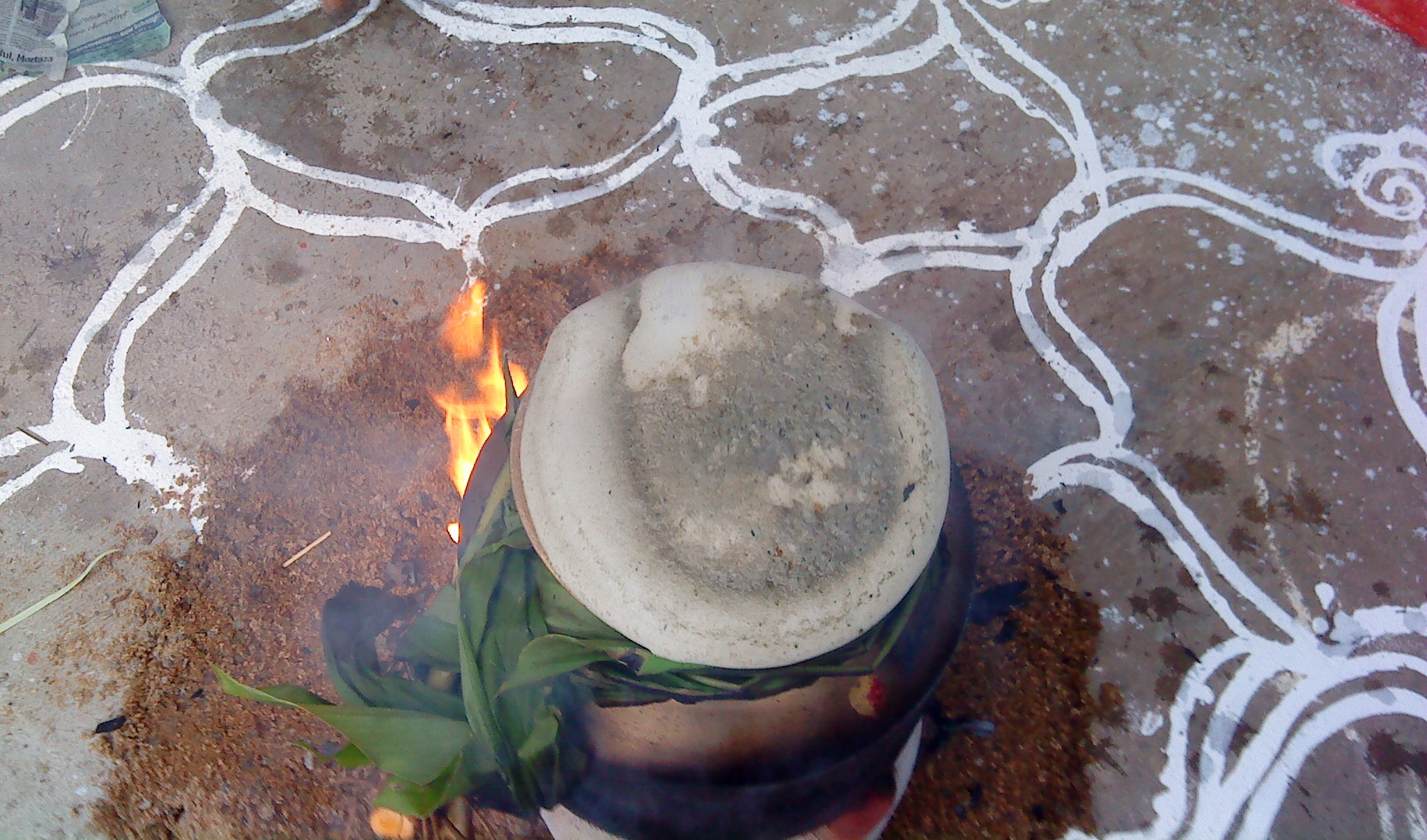 Pongal Celebration in home